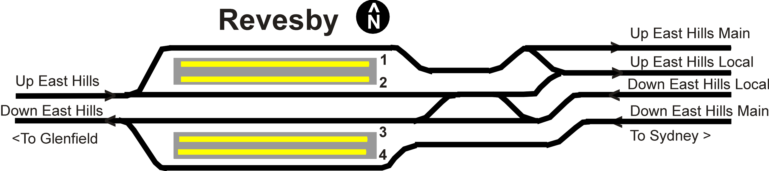 Track arrangement at Revesby railway station, Sydney in 2010 after stage 2 of the Rail Clearways plan